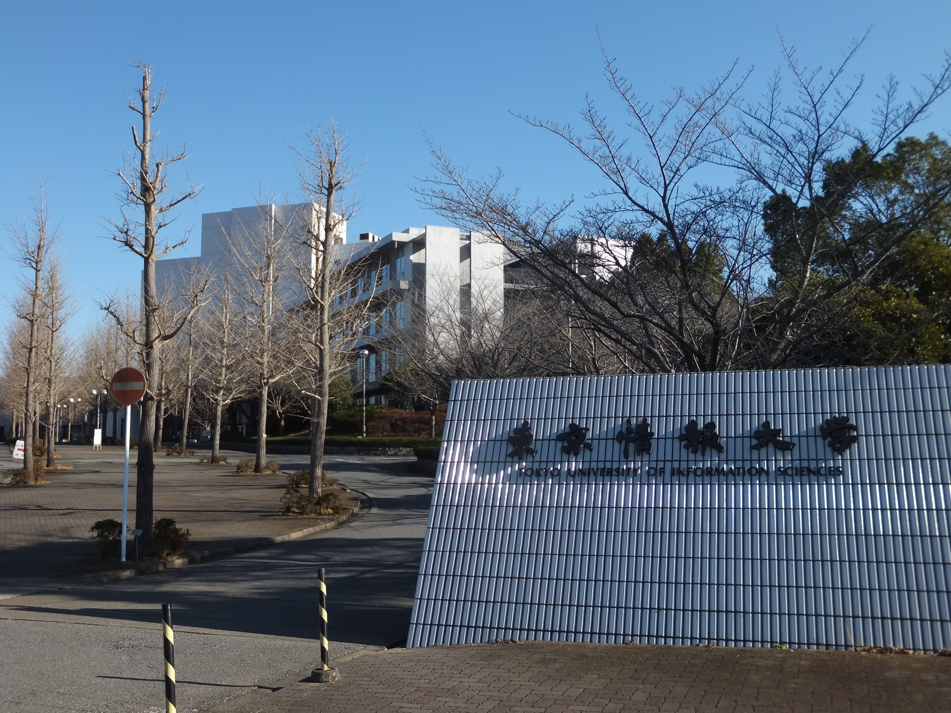 Tokyo University of Information Sciences in Chiba, Chiba, Japan